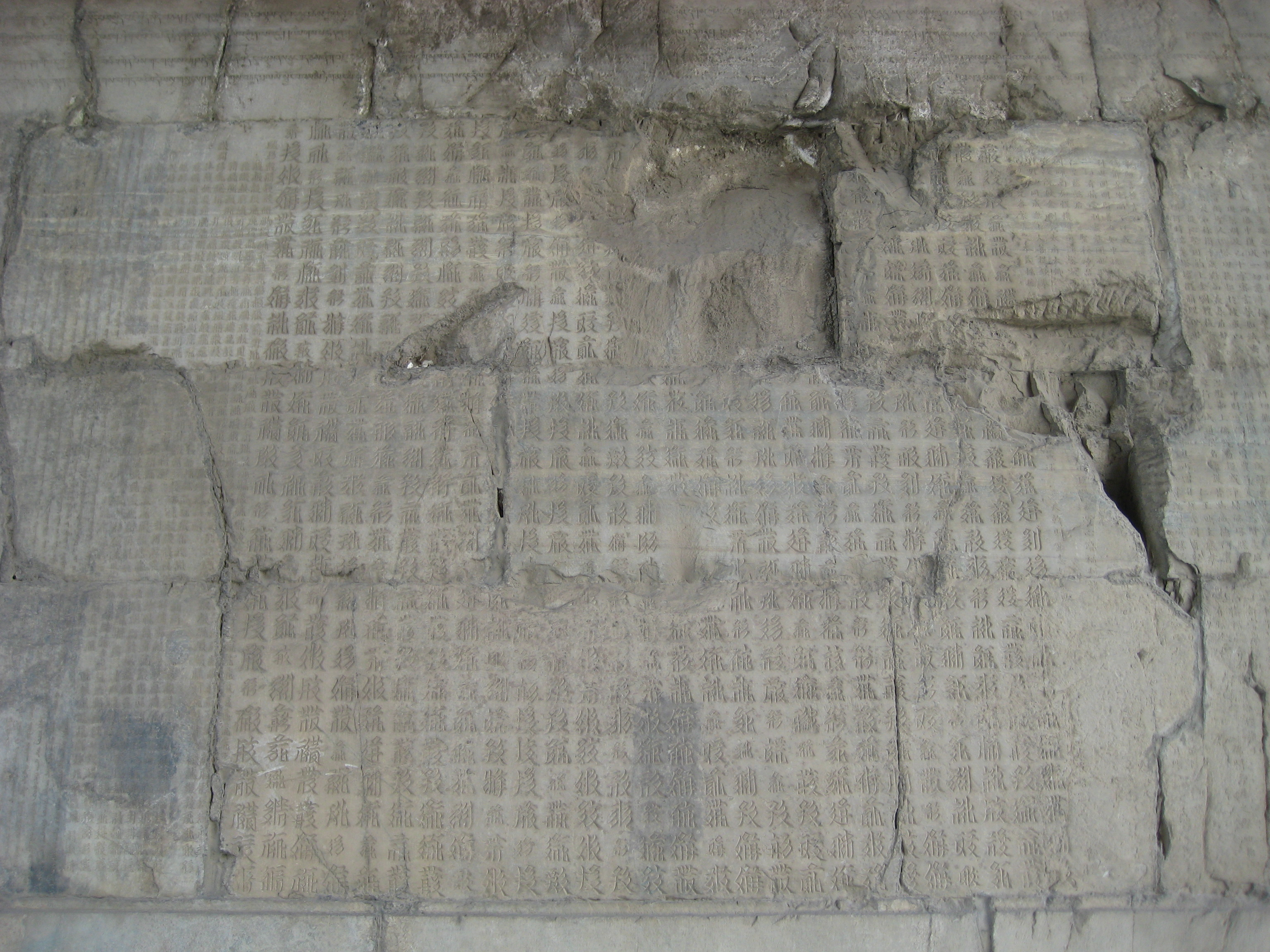 Tangut inscription on the east interior wall of the Cloud Platform at Juyongguan.